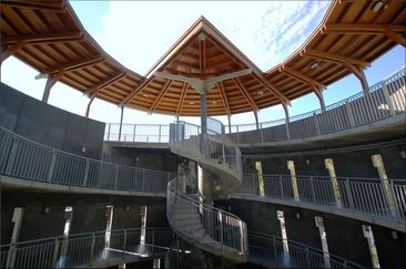 The rotunda at Slependen Station of the Drammen Line in Bærum, Norway.